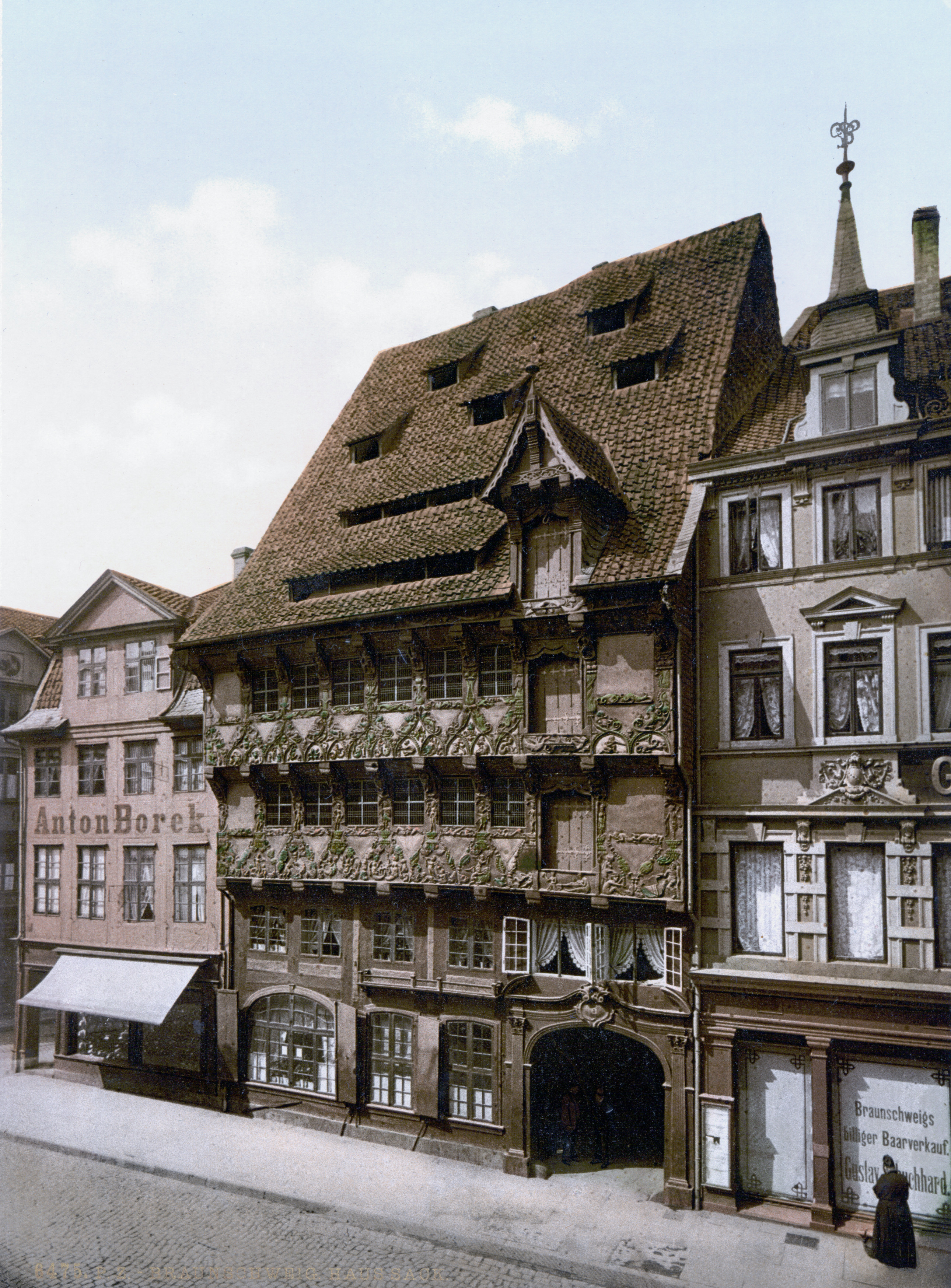 Houses in the „Sack“ street in Braunschweig, Germany